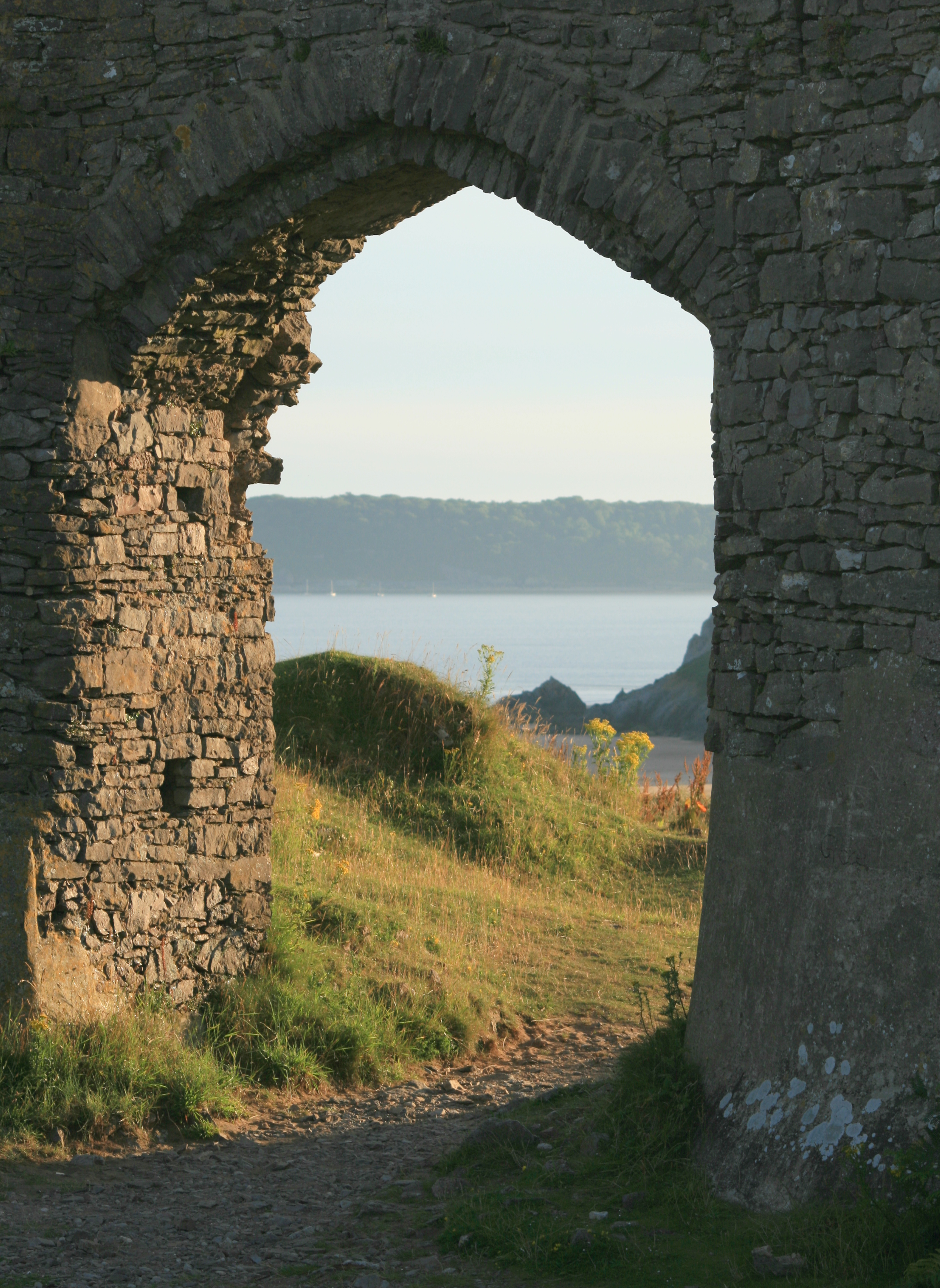 Towards Oxwich from Pennard Castle